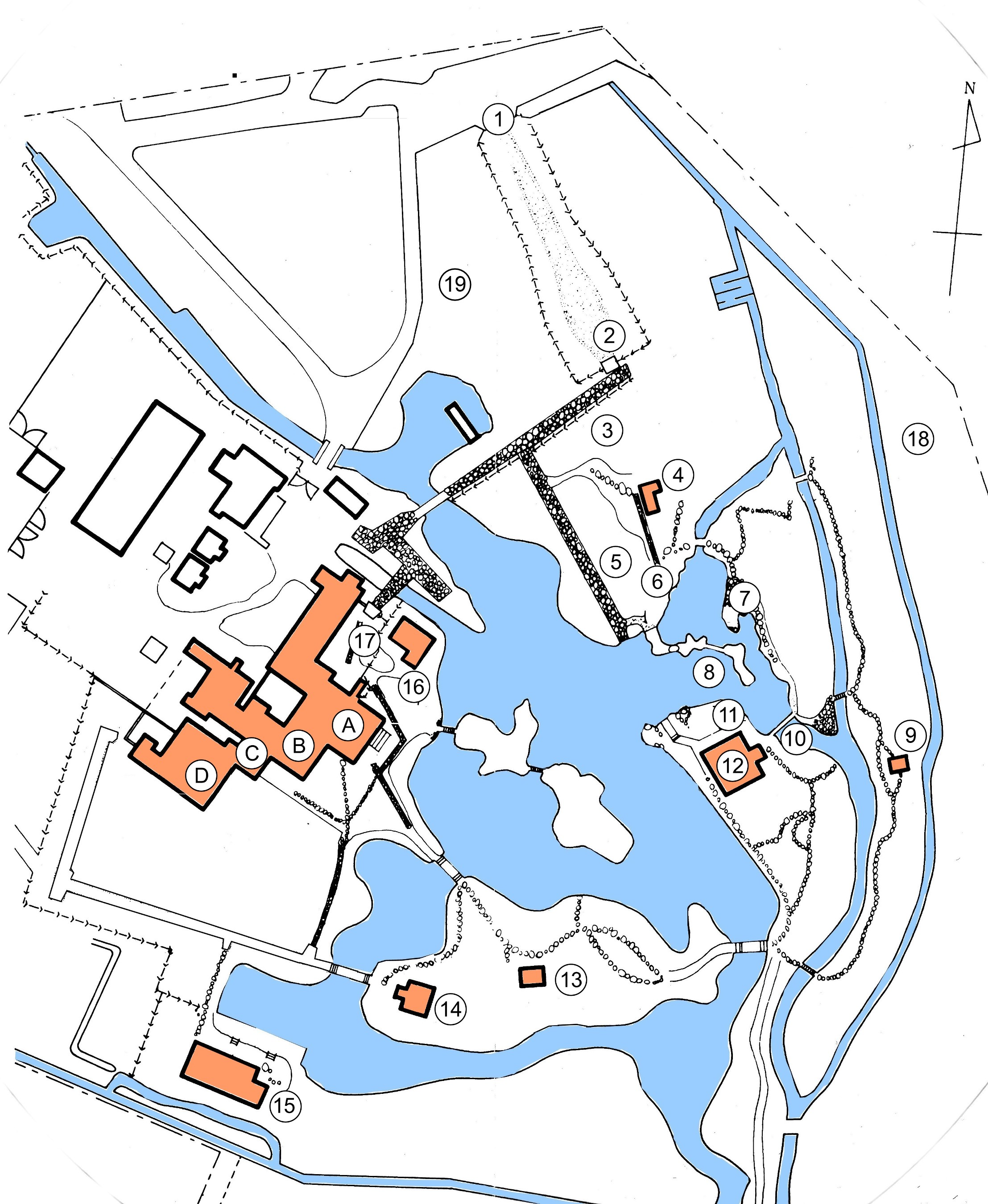 Layout of Katsura Villa